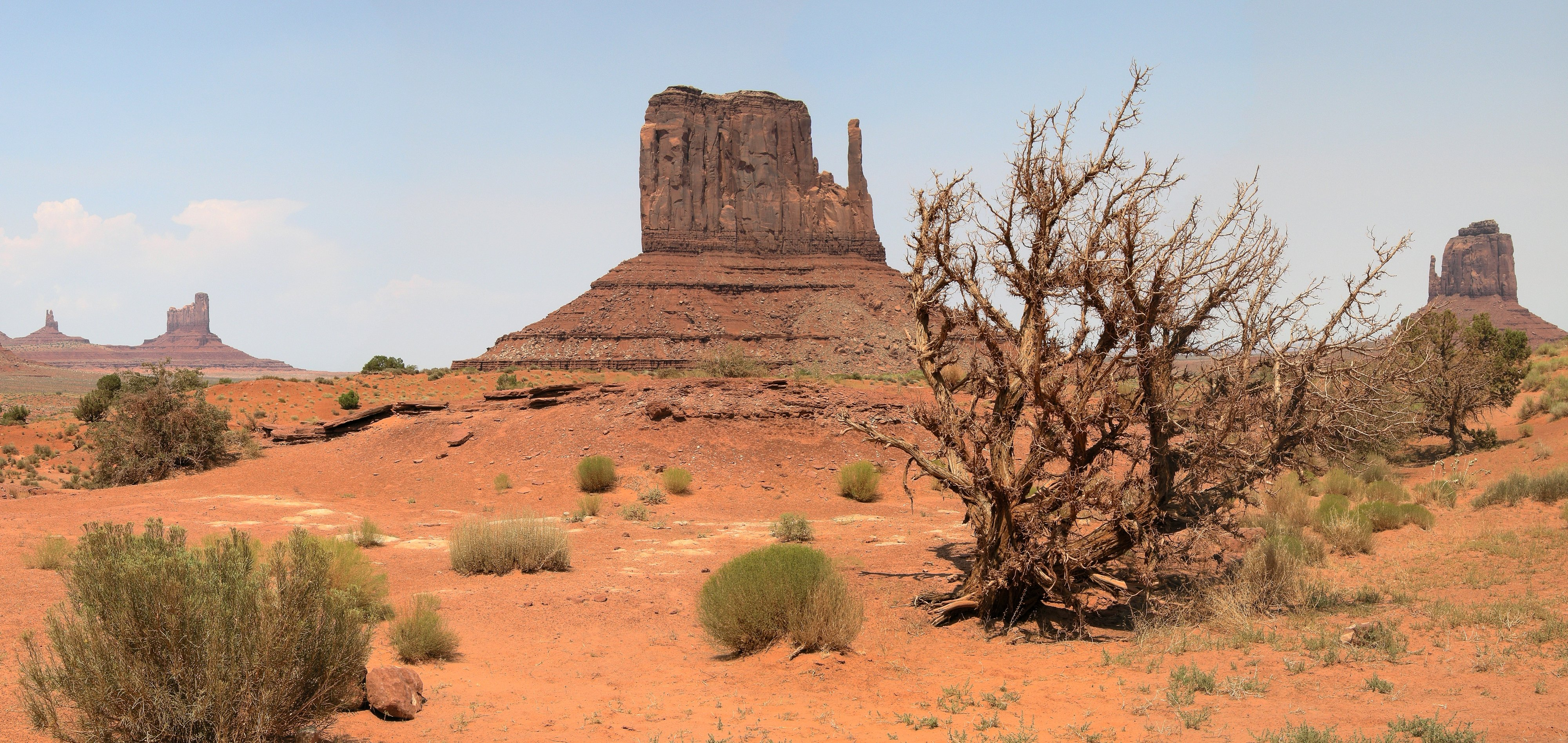 West Mitten Butte in Monument Valley, Arizona, USA